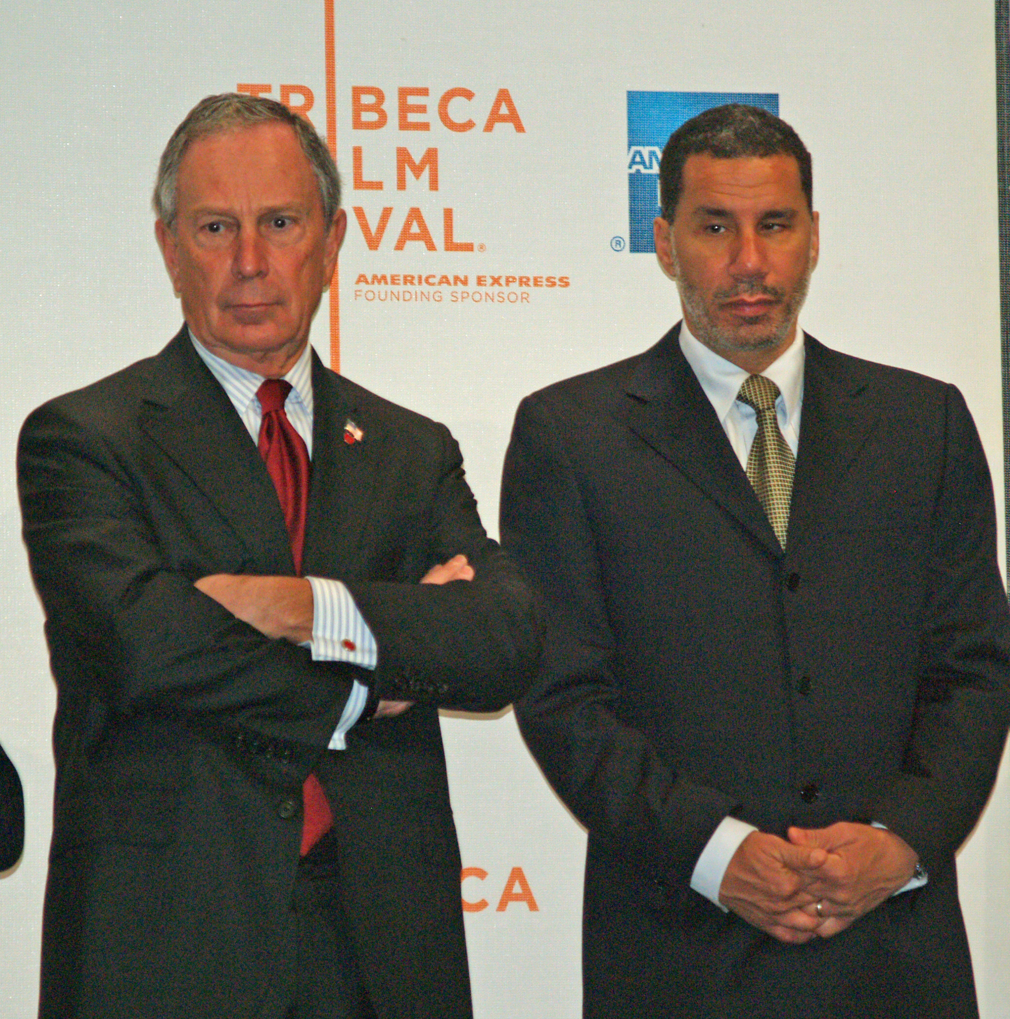 New York State Governor David Paterson and New York City Mayor Michael Bloomberg opening the 2008 Tribeca Film Festival.